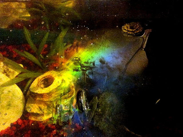 An iridescent biofilm on the surface of a fishtank diffracts the reflected light, creating a rainbow-spectrum of colors when viewed from the correct angle.